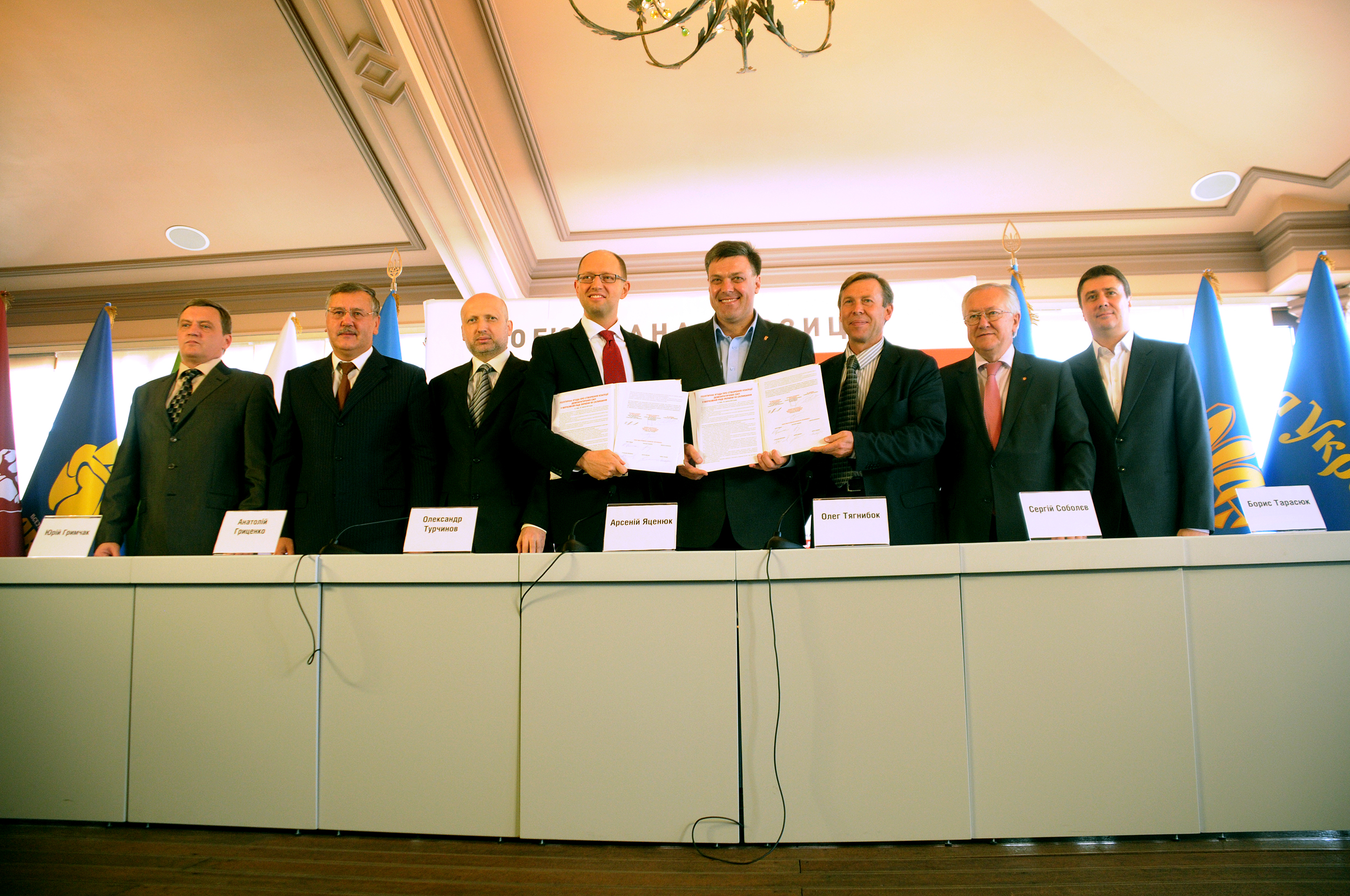 Oppositional parties signing coalition ageement before 2012 Ukrainian parliamentary election